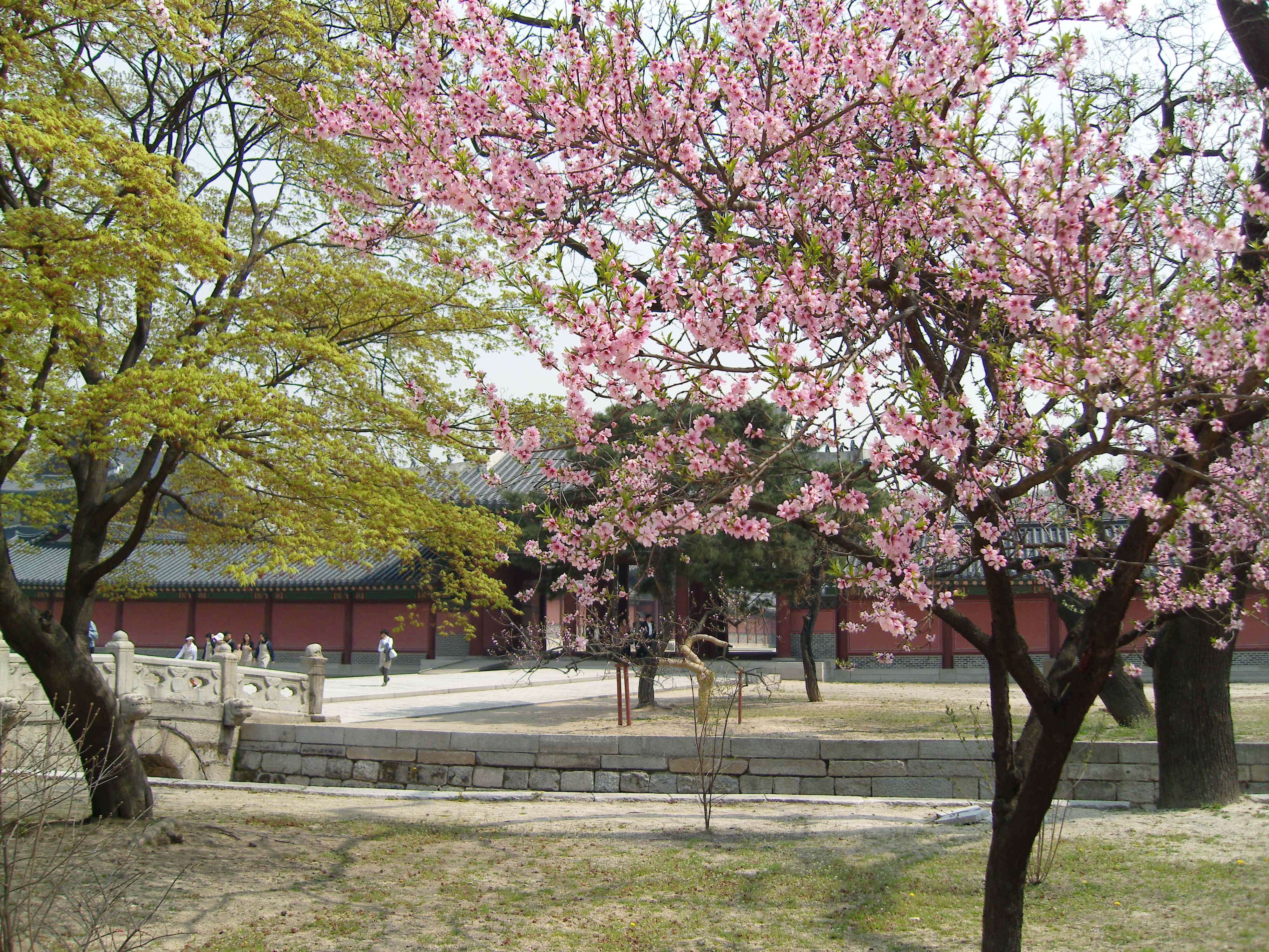 A view of Changdeokgung in the neighborhood of Waryong-dong, Jongno-gu, Seoul, South Korea